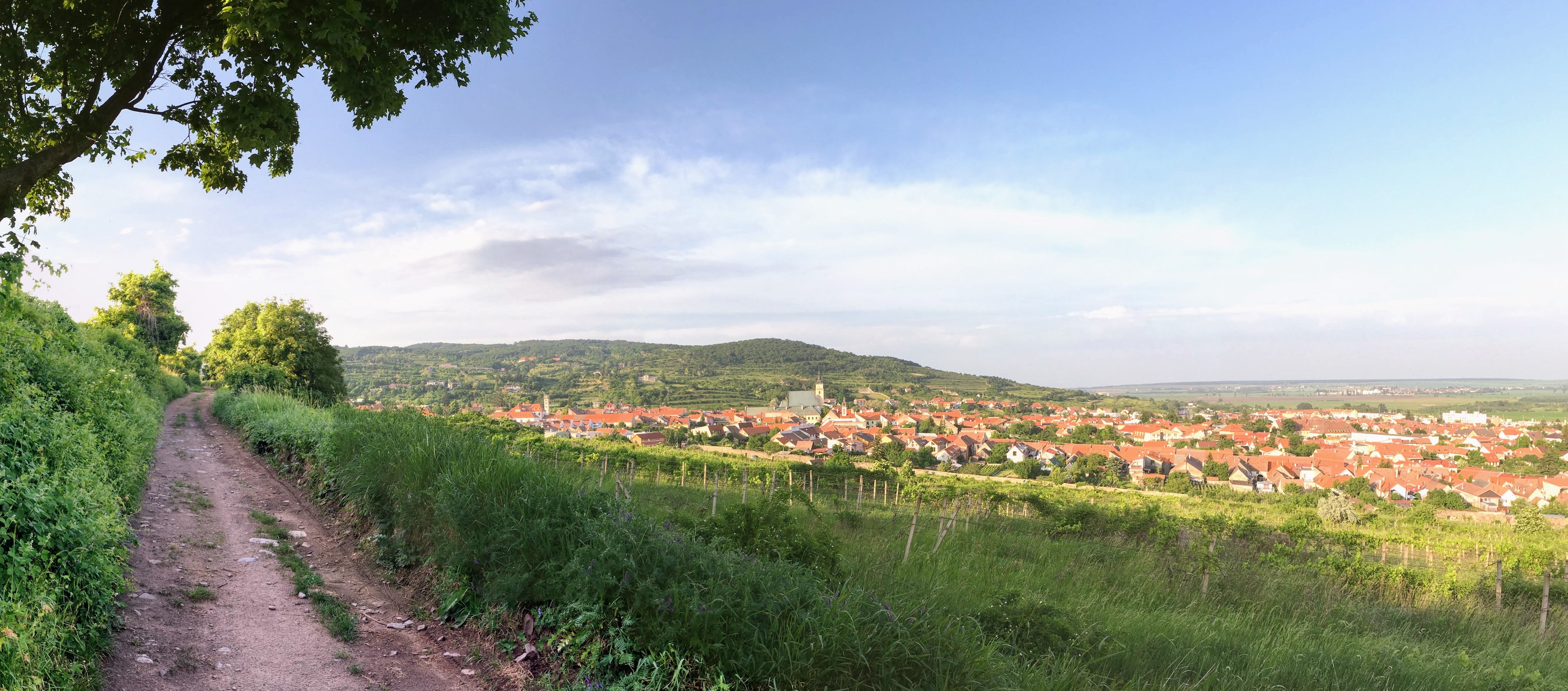 panorama view on Svätý Jur, SlovakiaSlovenčina: Pohľad na Svätý Jur